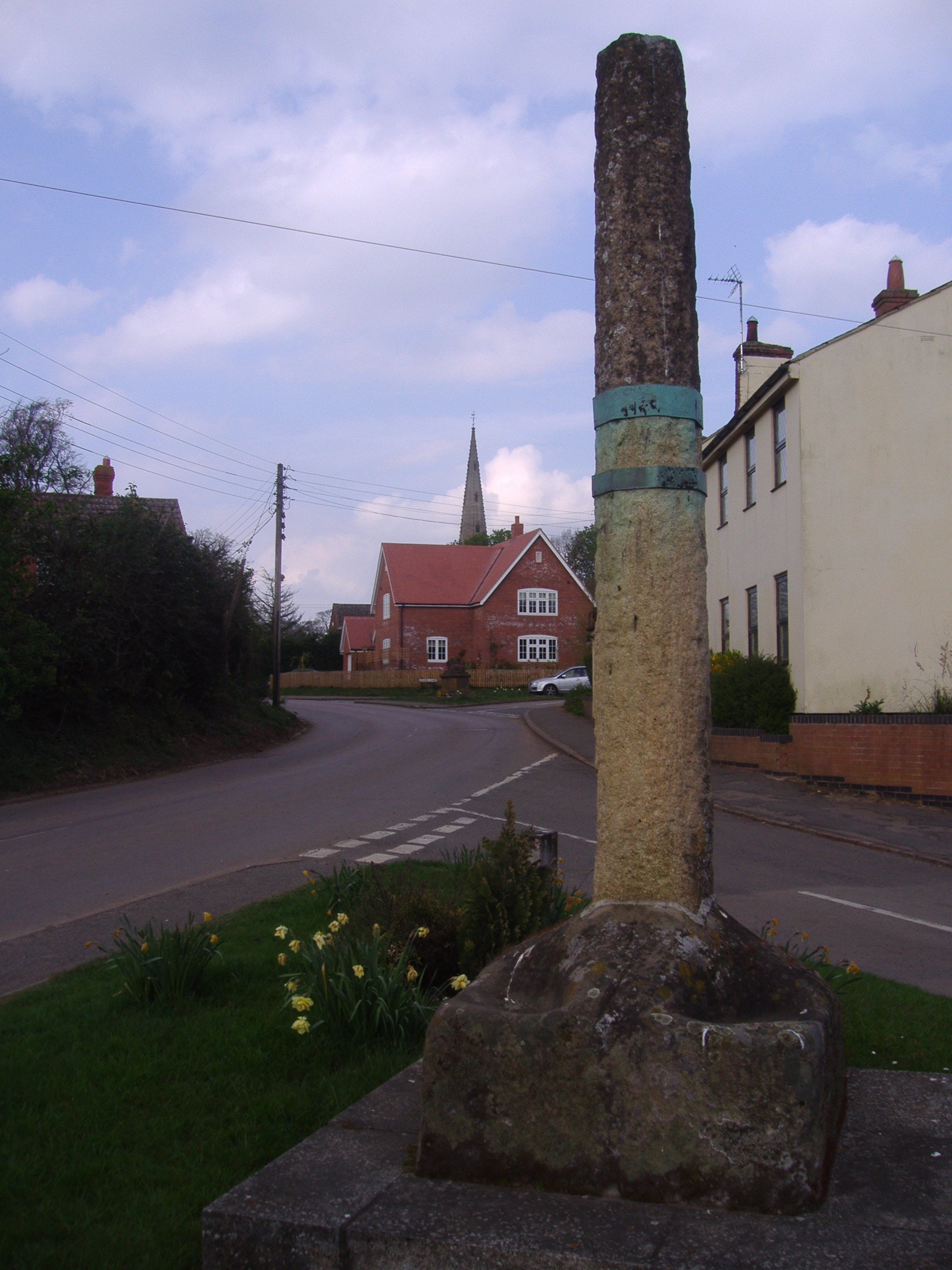 A Digital Photograph of the old Market Cross in the Village of Naseby